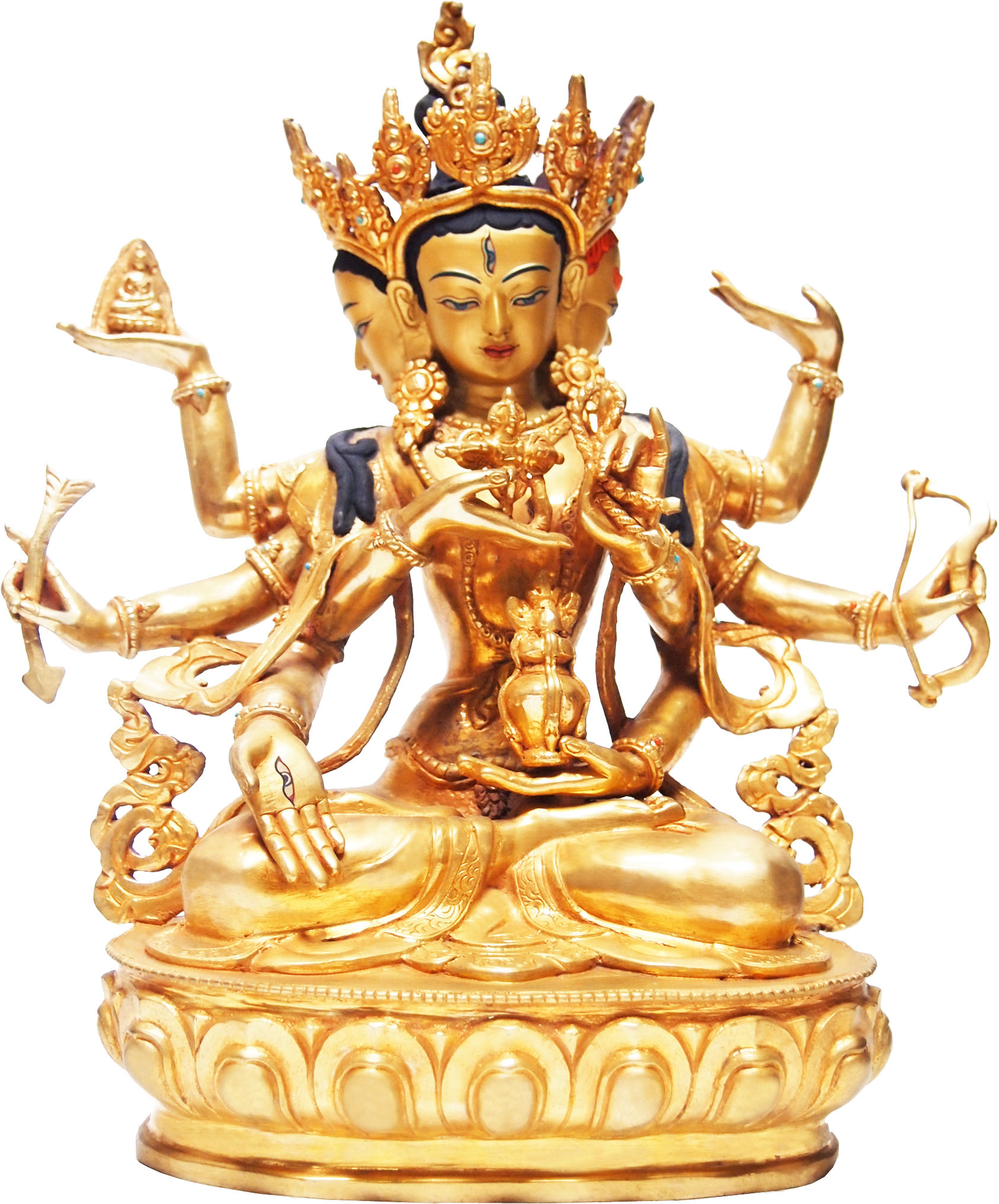 Usnisavijaya